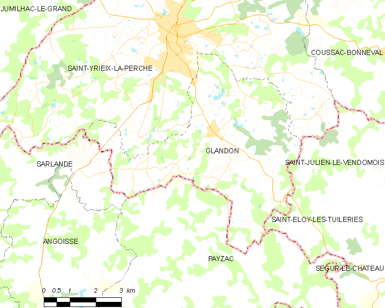 Map of French municipality Glandon